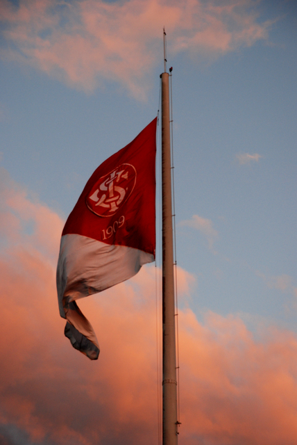 Flag of SC Internacional, Brazil.